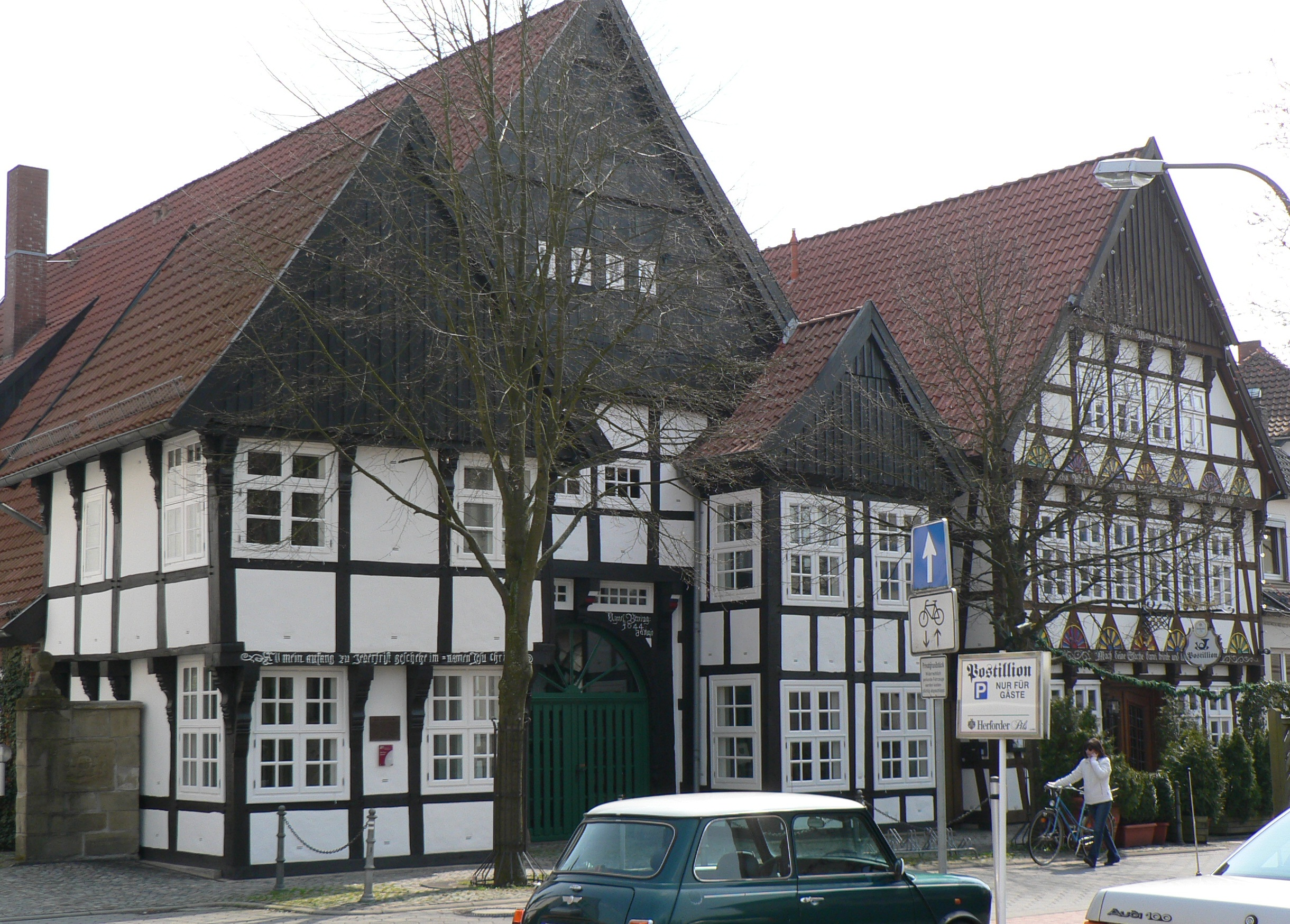 own file